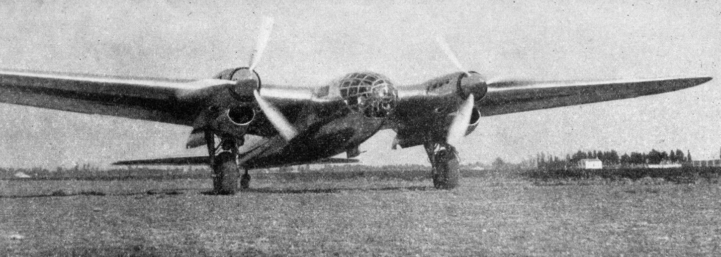 Amiot 370 photo from L'Aerophile December 1938